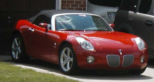 2006 Pontiac Solstice photographed in USA.